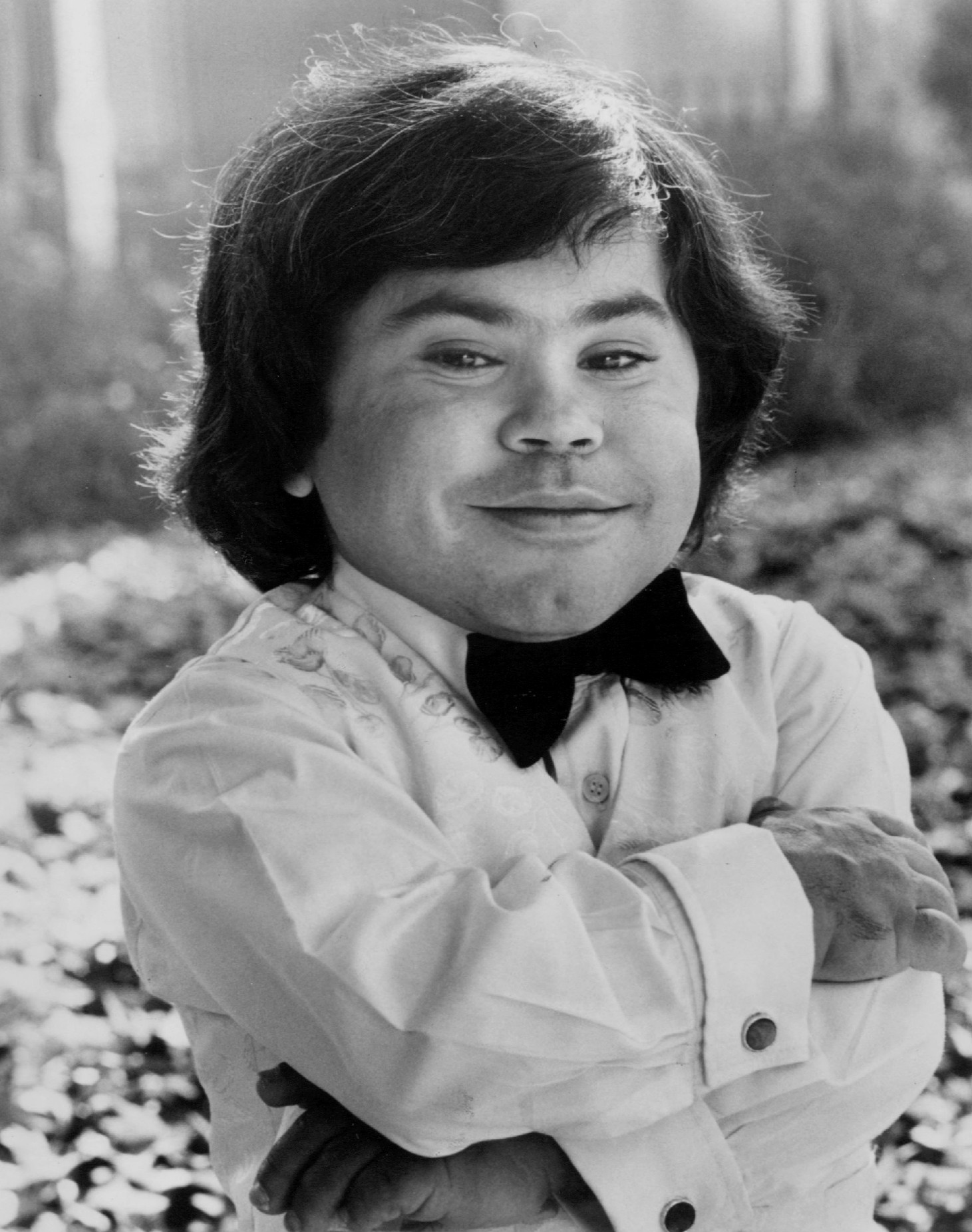 Photo of Herve Villechaize from the television program Fantasy Island.